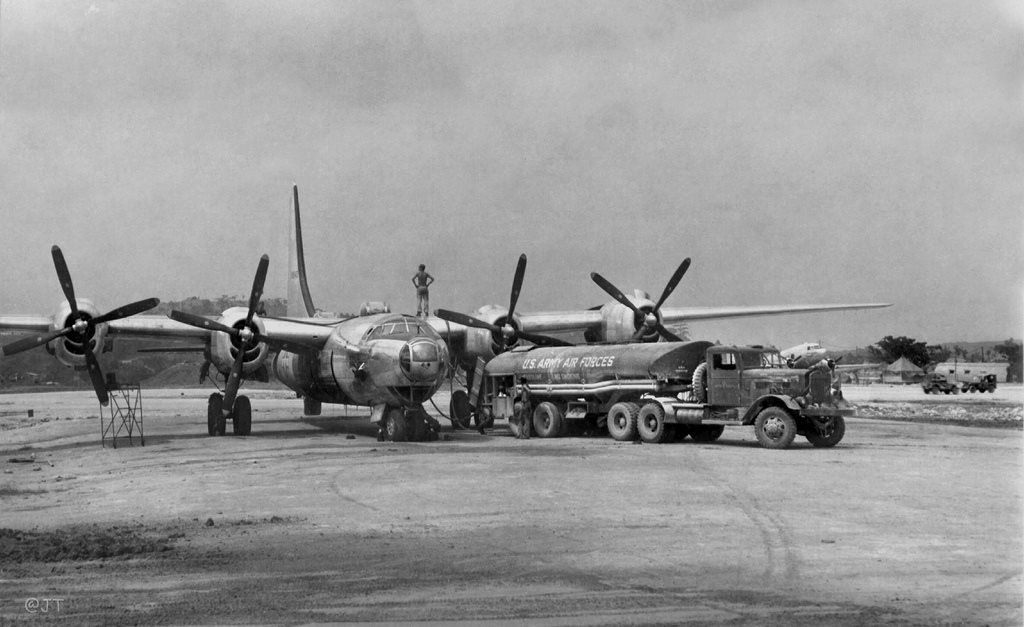 386th Bombardment Squadron - Consolidated XB-32 Dominator at Yontan Airfield Okinawa Refueling